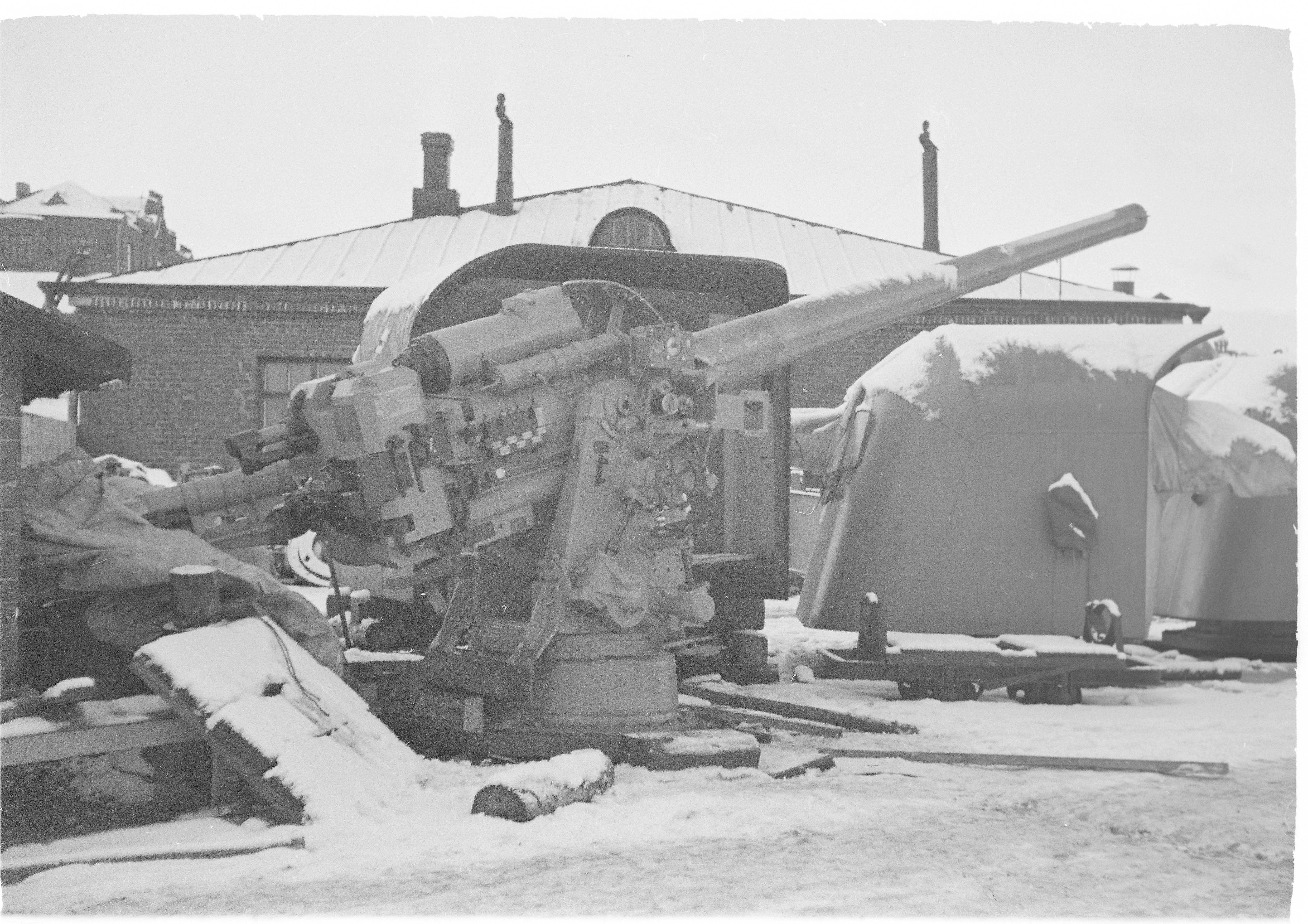 Soviet 130 mm/50 B13 Pattern 1936 coastal gun in Finnish service.